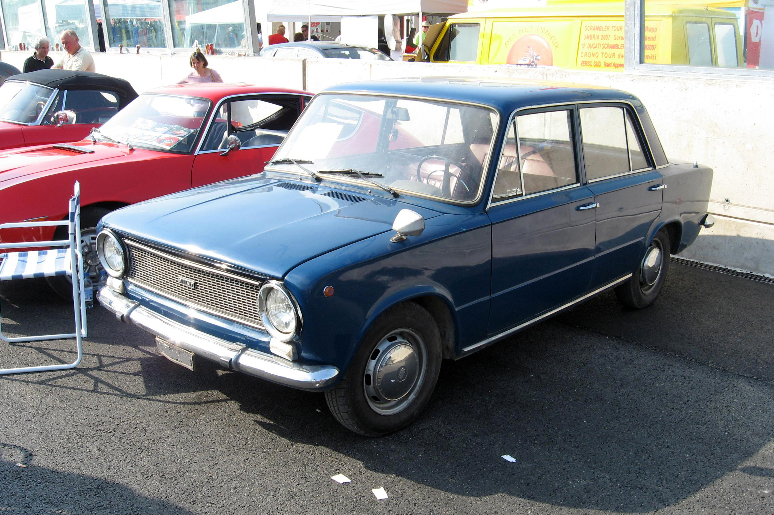 Subject: Fiat 124 Berlina Author: Luc106 Date: September 15th, 2007 Place/Country: Imola Circuit, Imola (BO), Italy I release all rights in the public domain